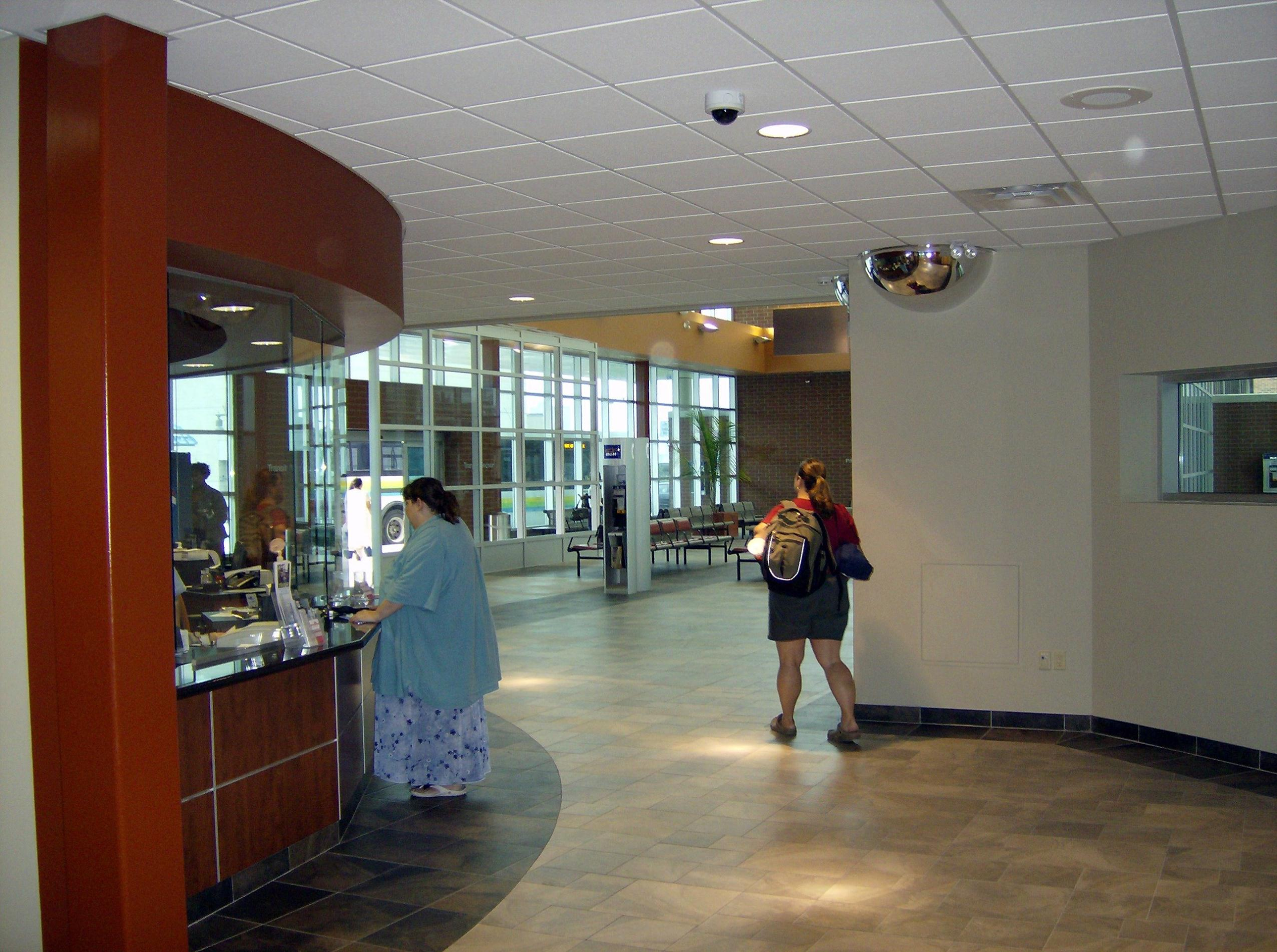 Inside_Windsor_Bus_Terminal